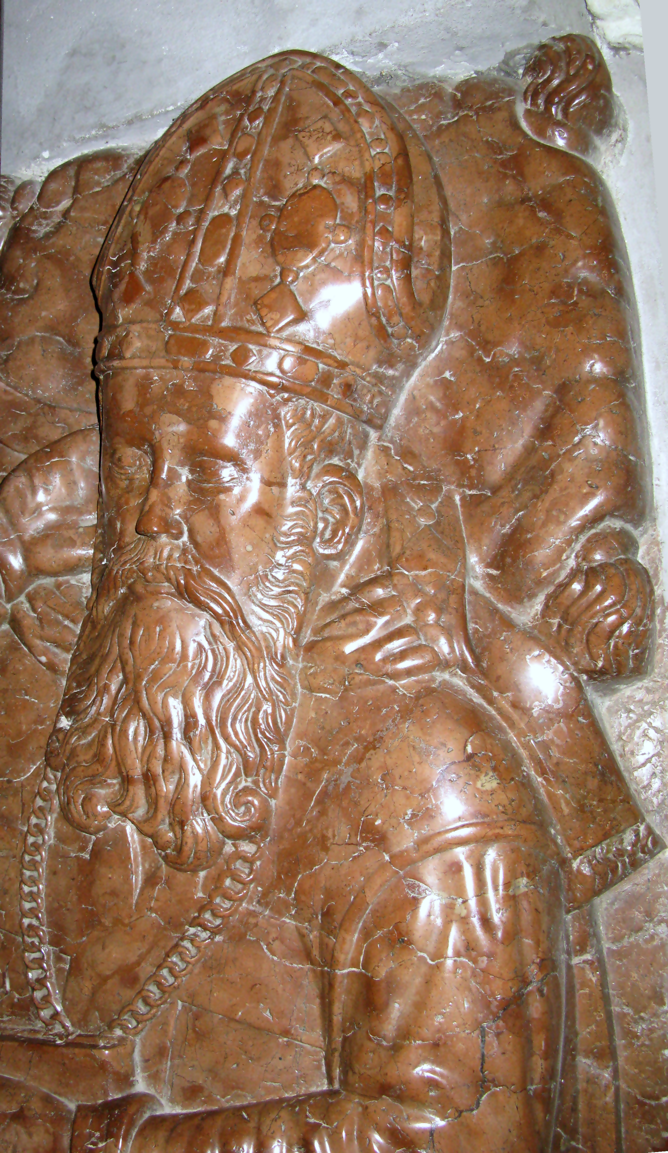 Tomb effigy of Piotr Dunin-Wolski in Płock Cathedral